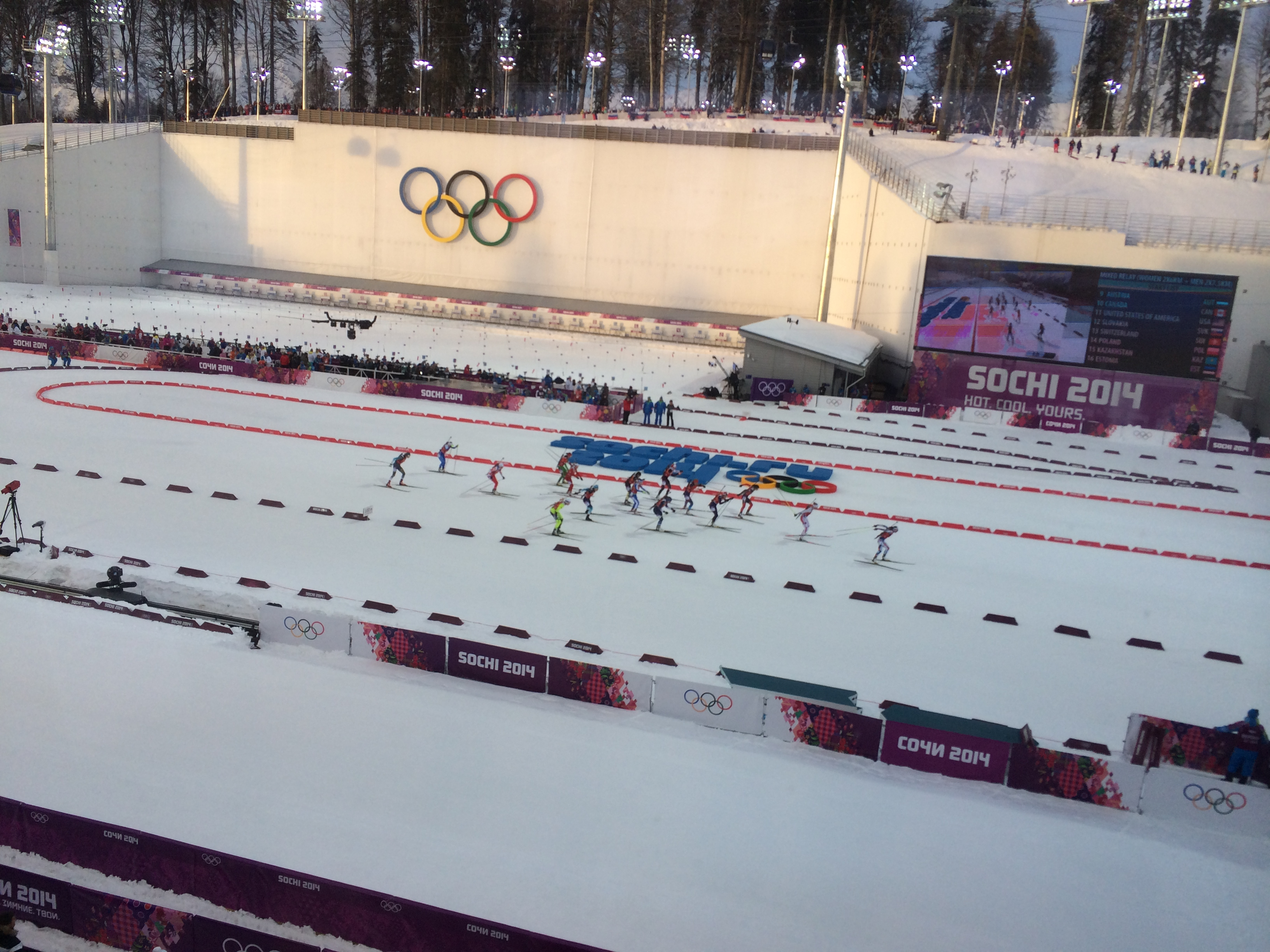 Mens' Biathalon at Laura Cross-Country Ski and Biathlon Center (4)